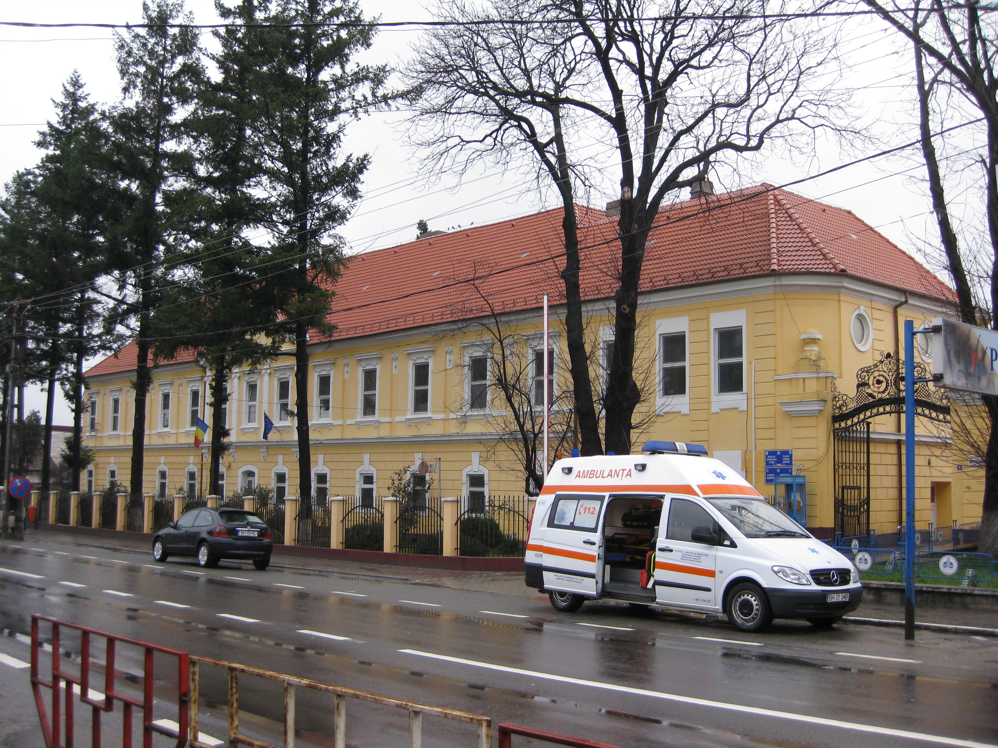 Alesd hospial, former Batthyany-Bethlen Castle